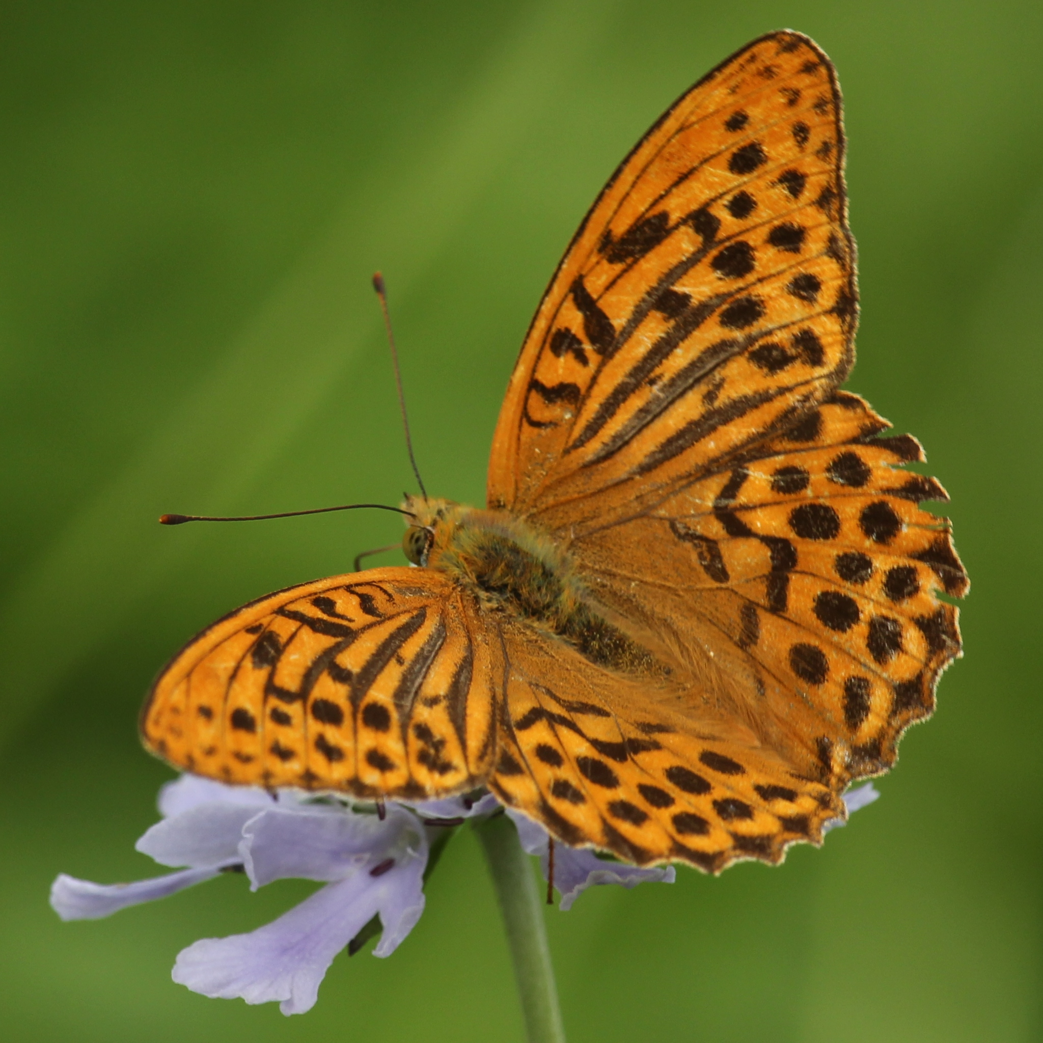 Male of Argynnis paphia feeding nectar of Scabiosa japonica in Mount Ontake, Nagano prefecture, Japan.